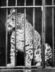 A pumapard. Photo from 1904.